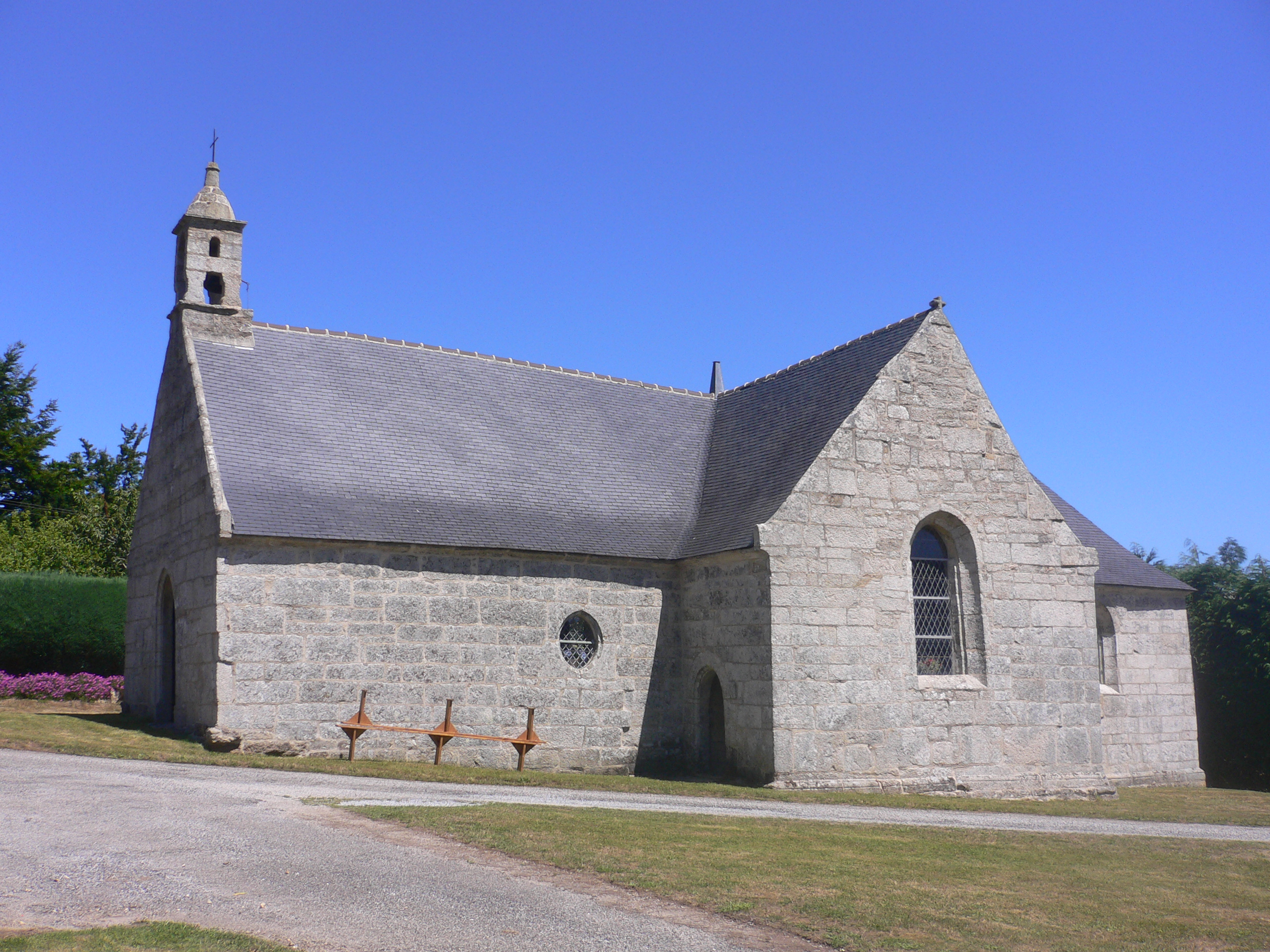 chapel Saint Tugdual in Guiscriff, Brittany